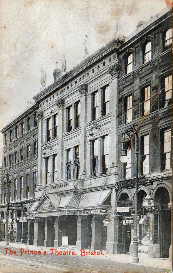 The Princes Theatre in Bristol in 1905